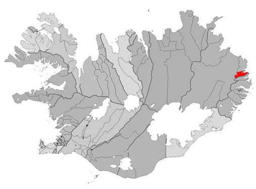 Based on Municipalities of Iceland.png.